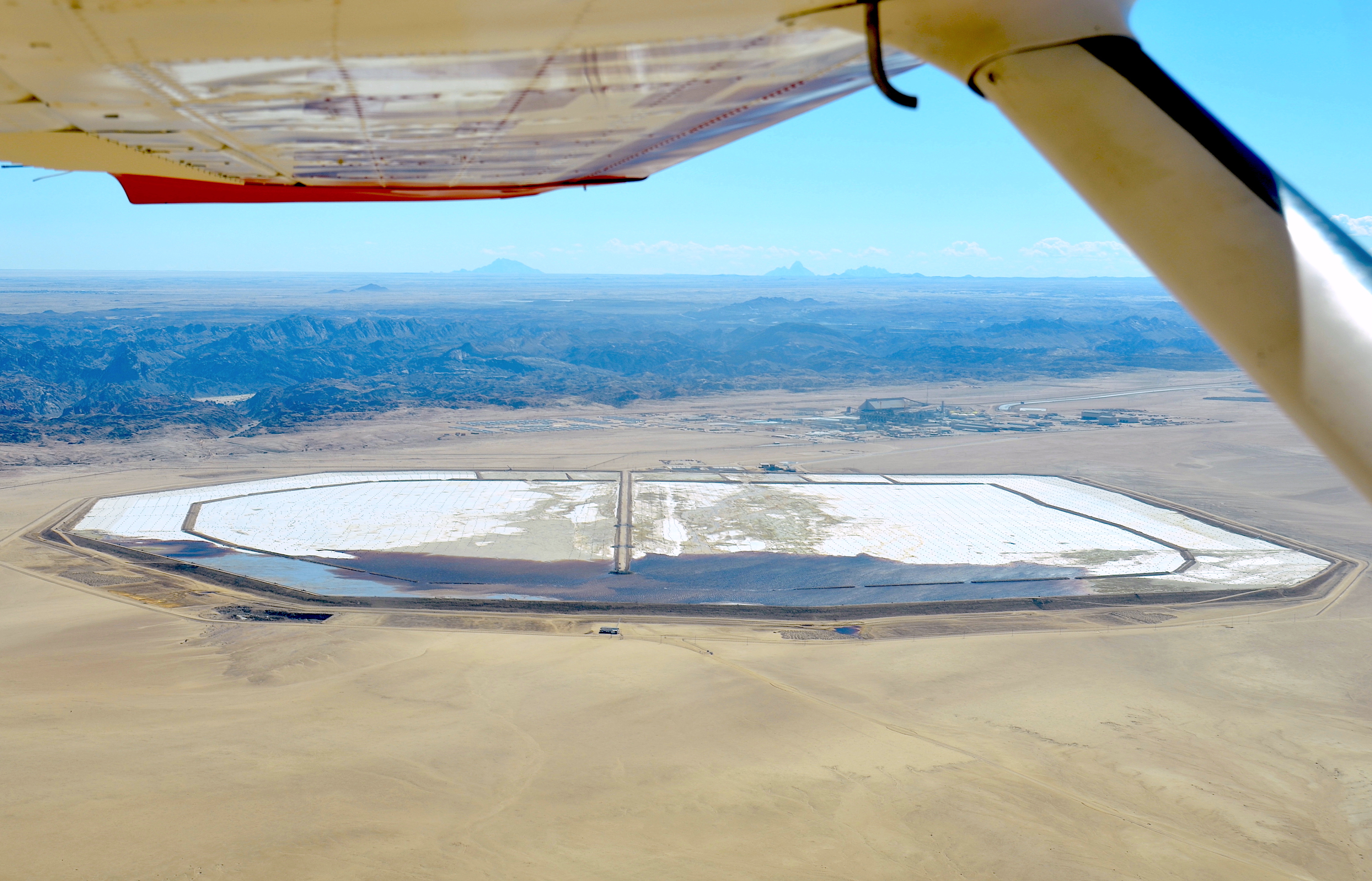 Tailings and processing plant of Husab Mine and Klan mountains in Namibia (2017)